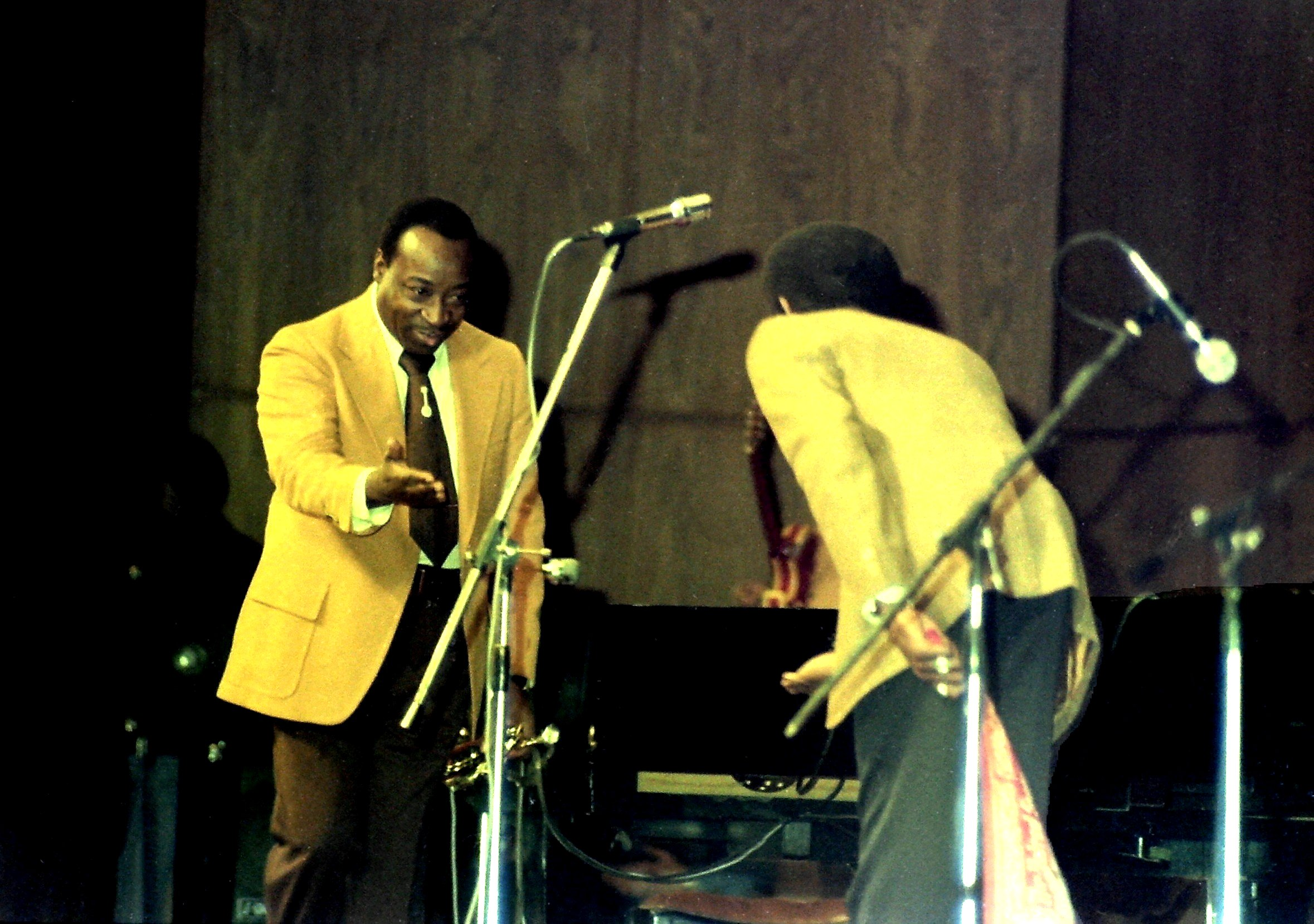 1977 Dave Bartholomew (left, facing front) with Fats Domino (to the right). Rosengarten Mannheim, Germany.